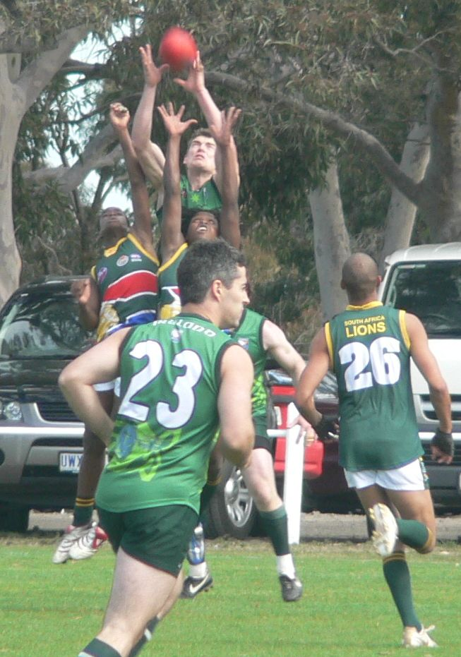 Irish player takes a pack mark against South Africa during the 2008 Australian Football International Cup